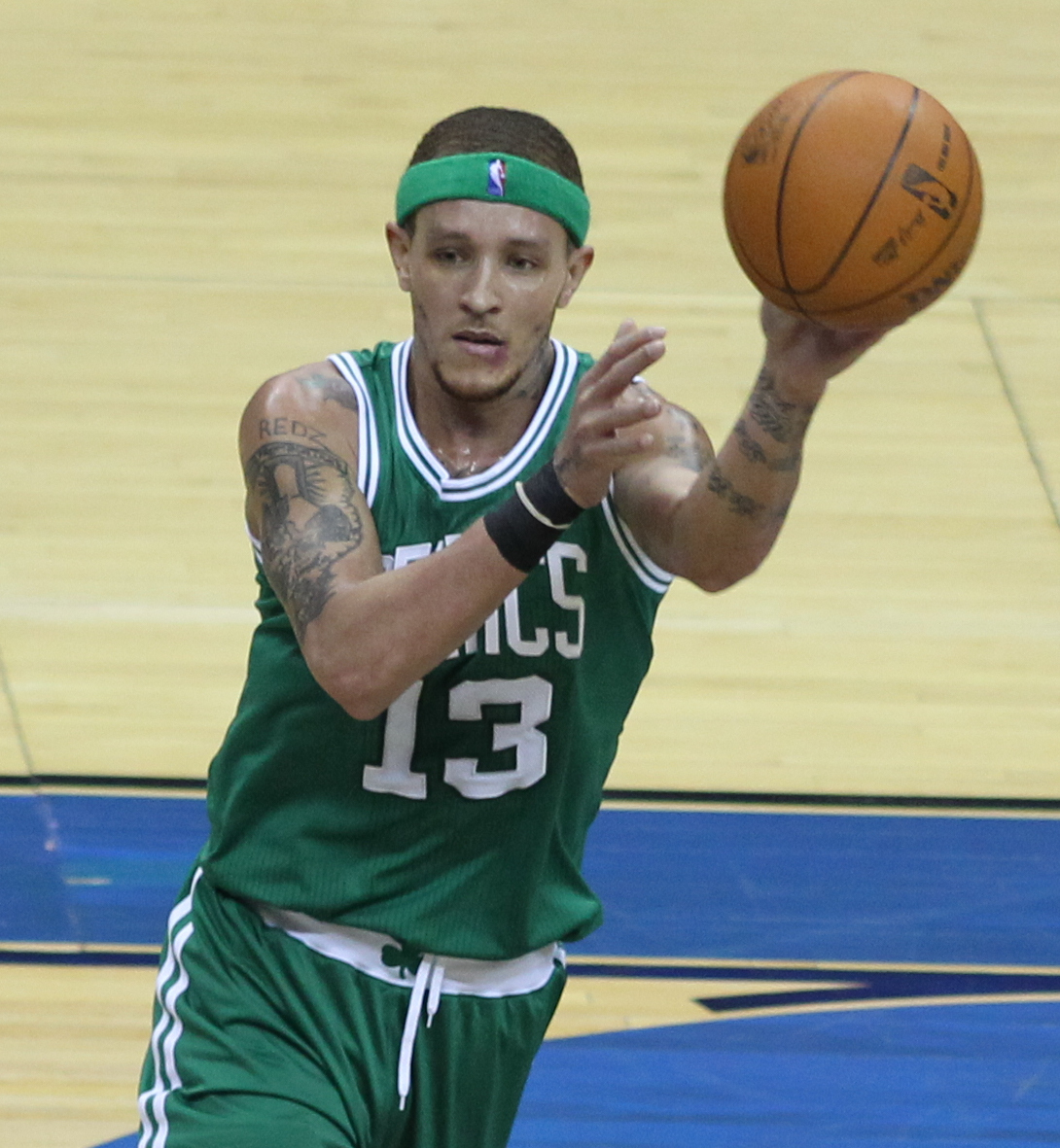 Boston Celtics v/s Washington Wizards April 11, 2011